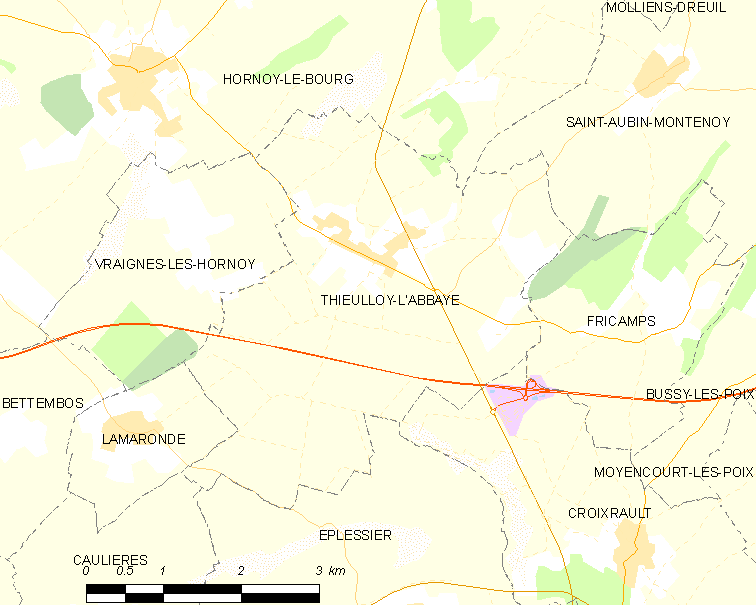 Map of French municipality Thieulloy-l'Abbaye